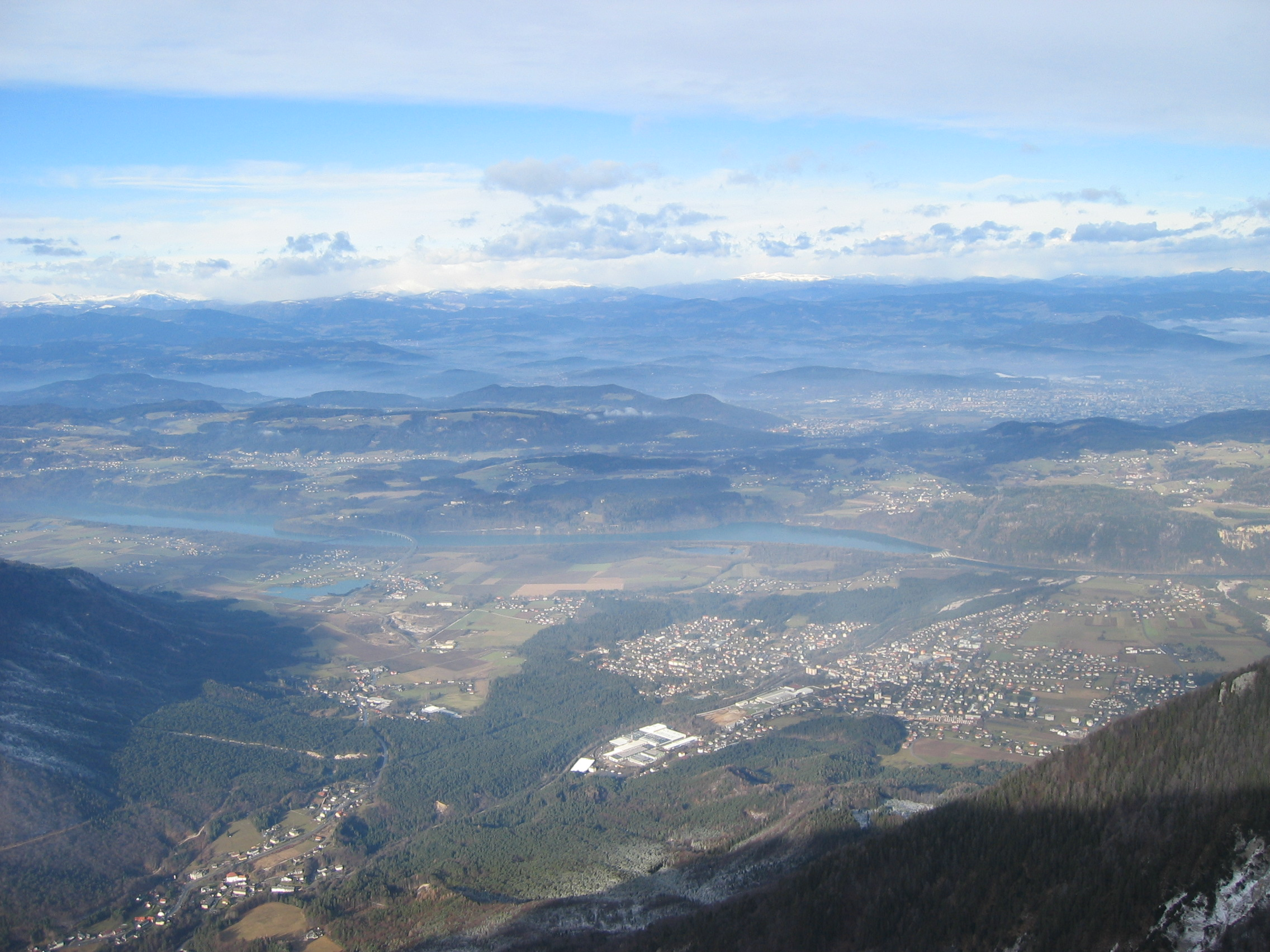 Ferlach / Carinthia / Austria / Europe